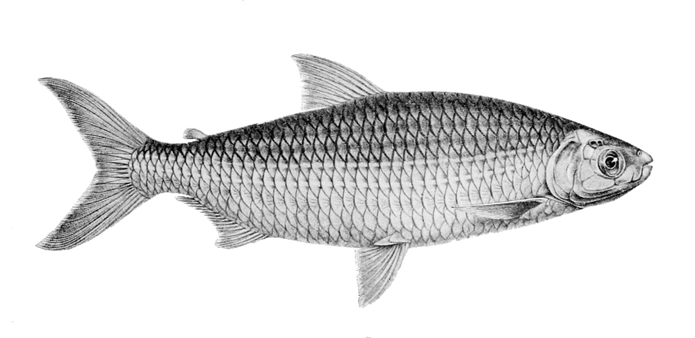 Alestes liebrechtsii